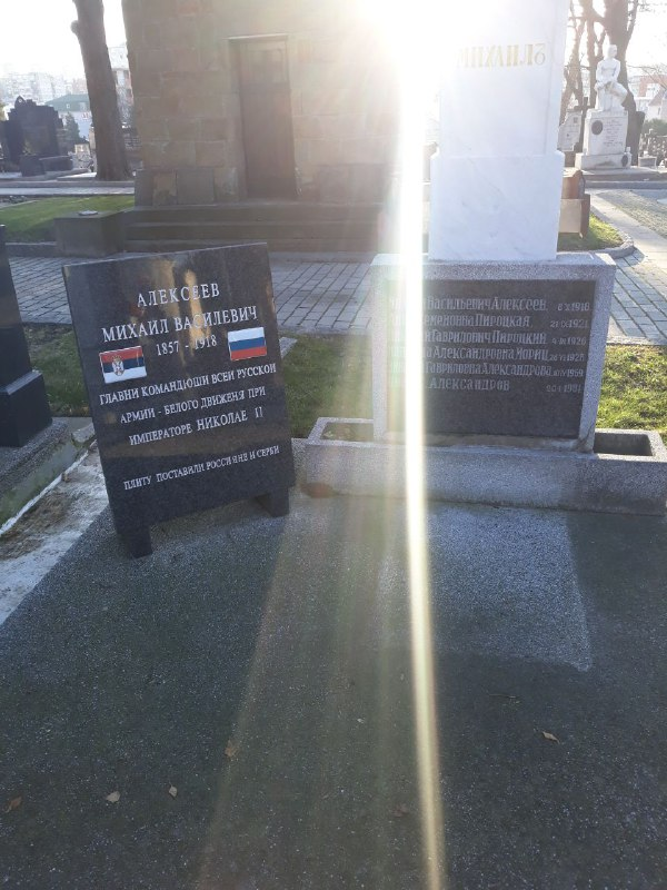 General Aleksejev's grave at the New Cemetery in Belgrade